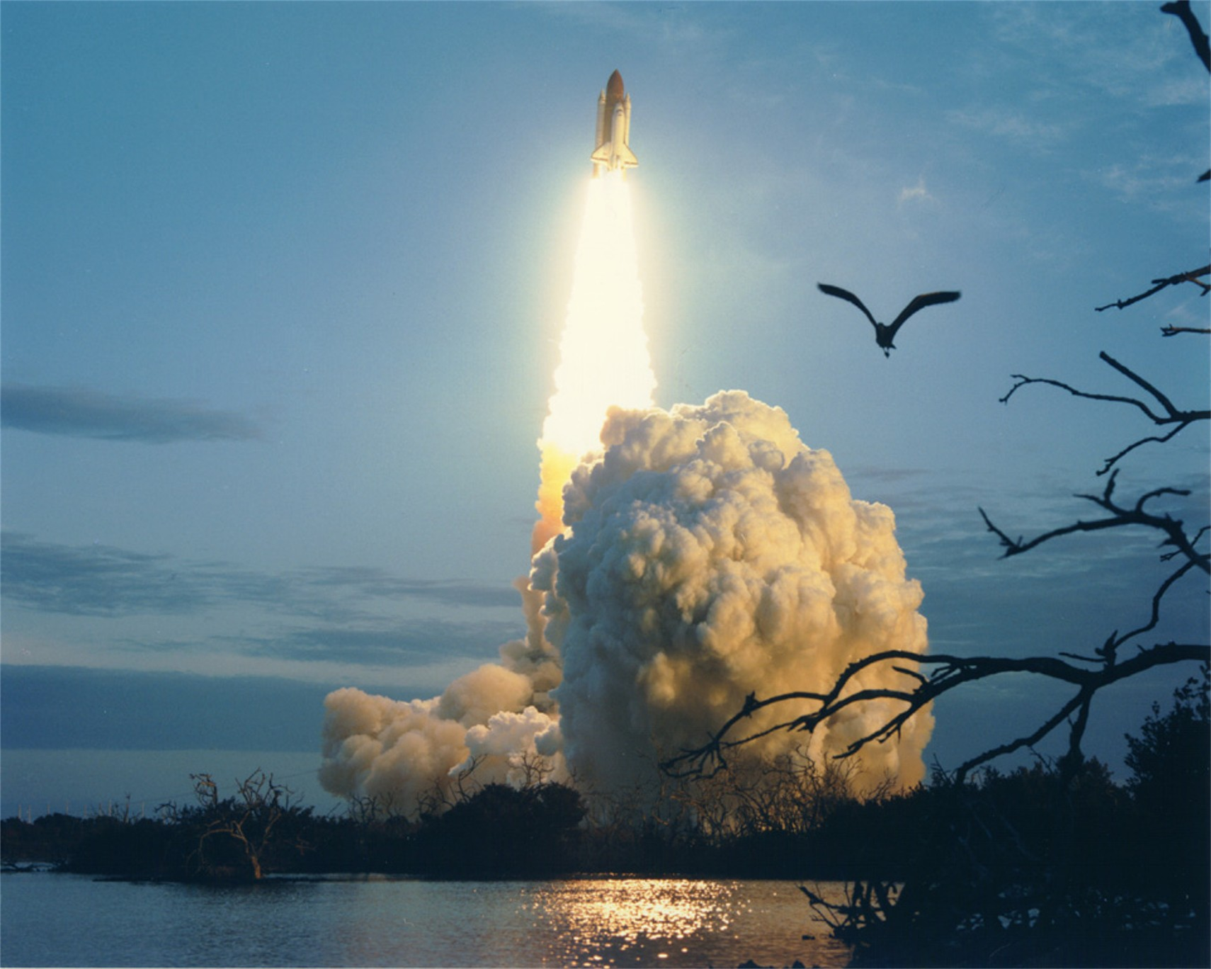 Launch of STS-32 from the refurbished LC-39A in January 1990.